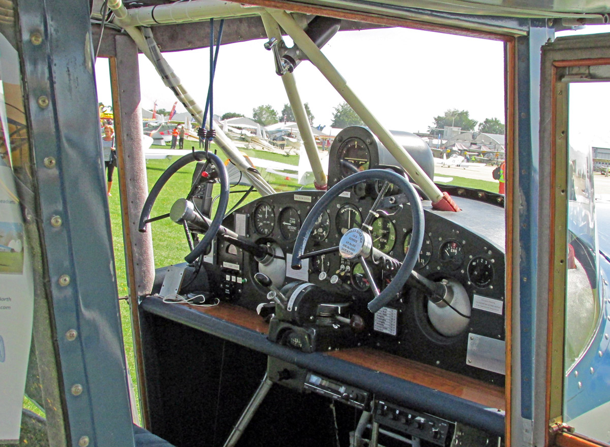 Chrislea CH.3 Super Ace G-AKUW - cabin and flying controls - 2013